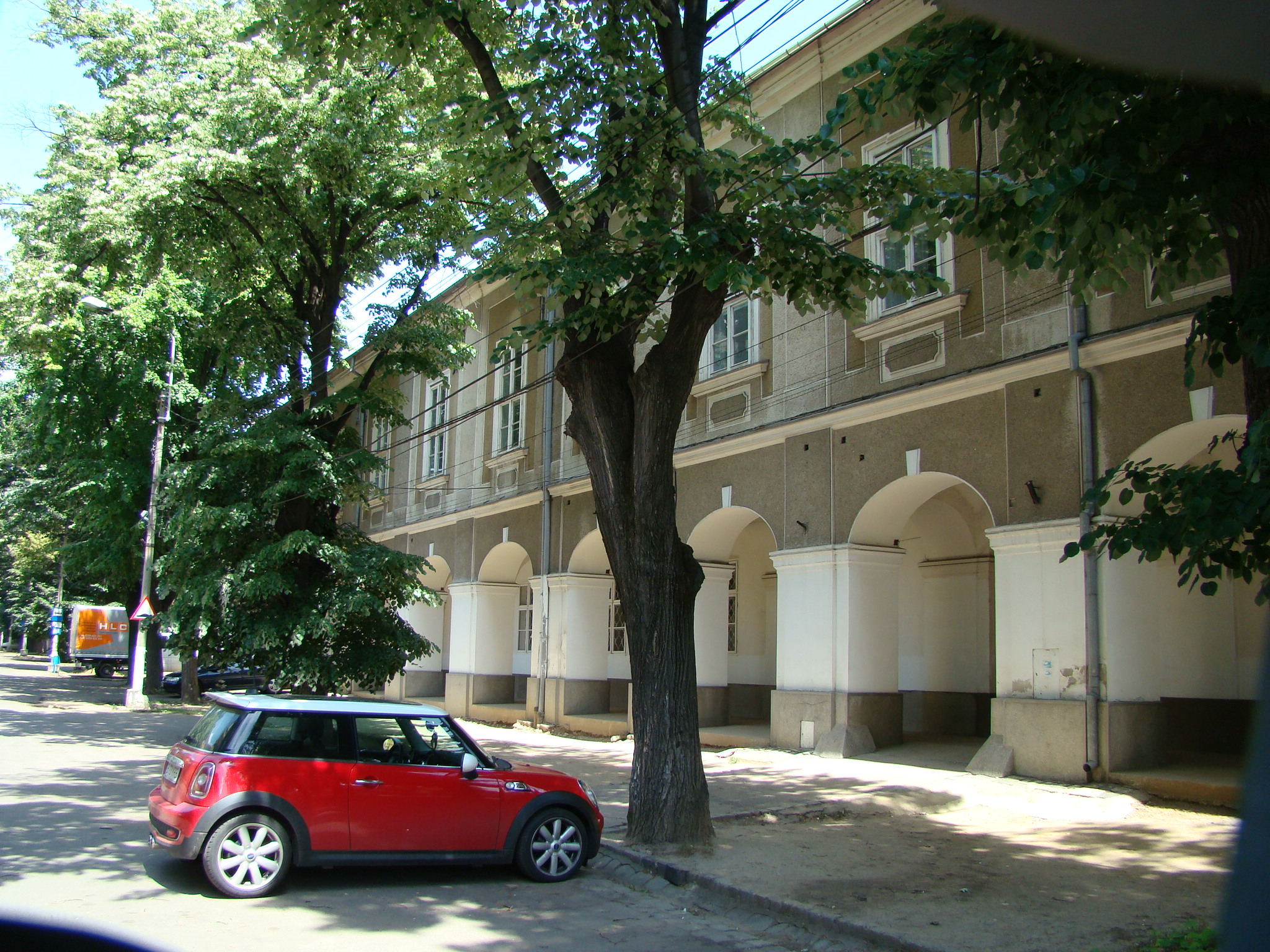 Canon's Row, OradeaRomână: Șirul Caninicilor, Oradea